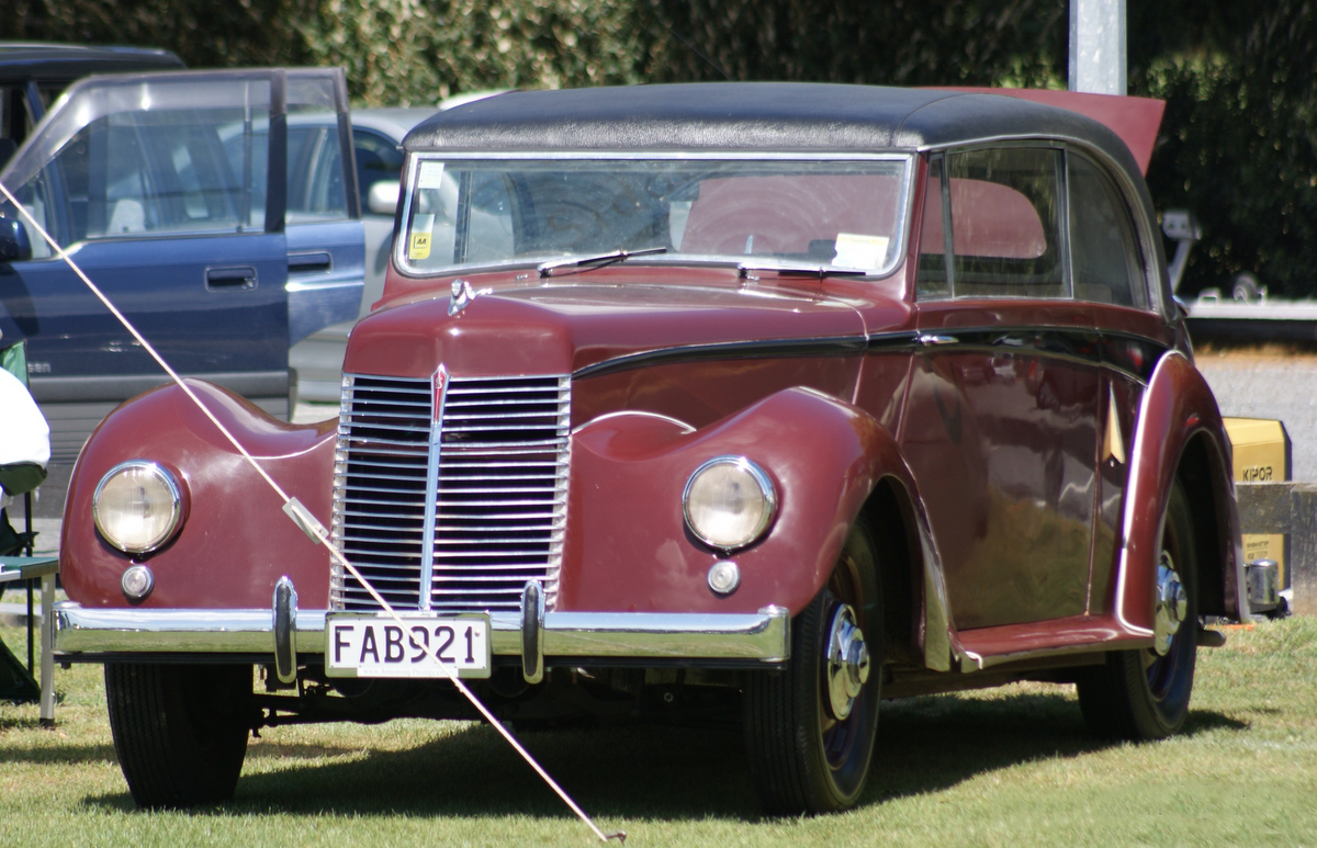 Armstrong Siddeley Typhoon ca 1950 at Wellington British Car Club Day - Trentham Memorial Park - 14 Feb 2010